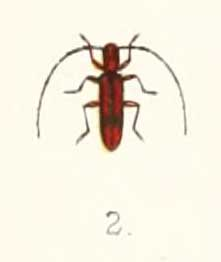 « Delagoa fenestrata » = Armylaena fasciata